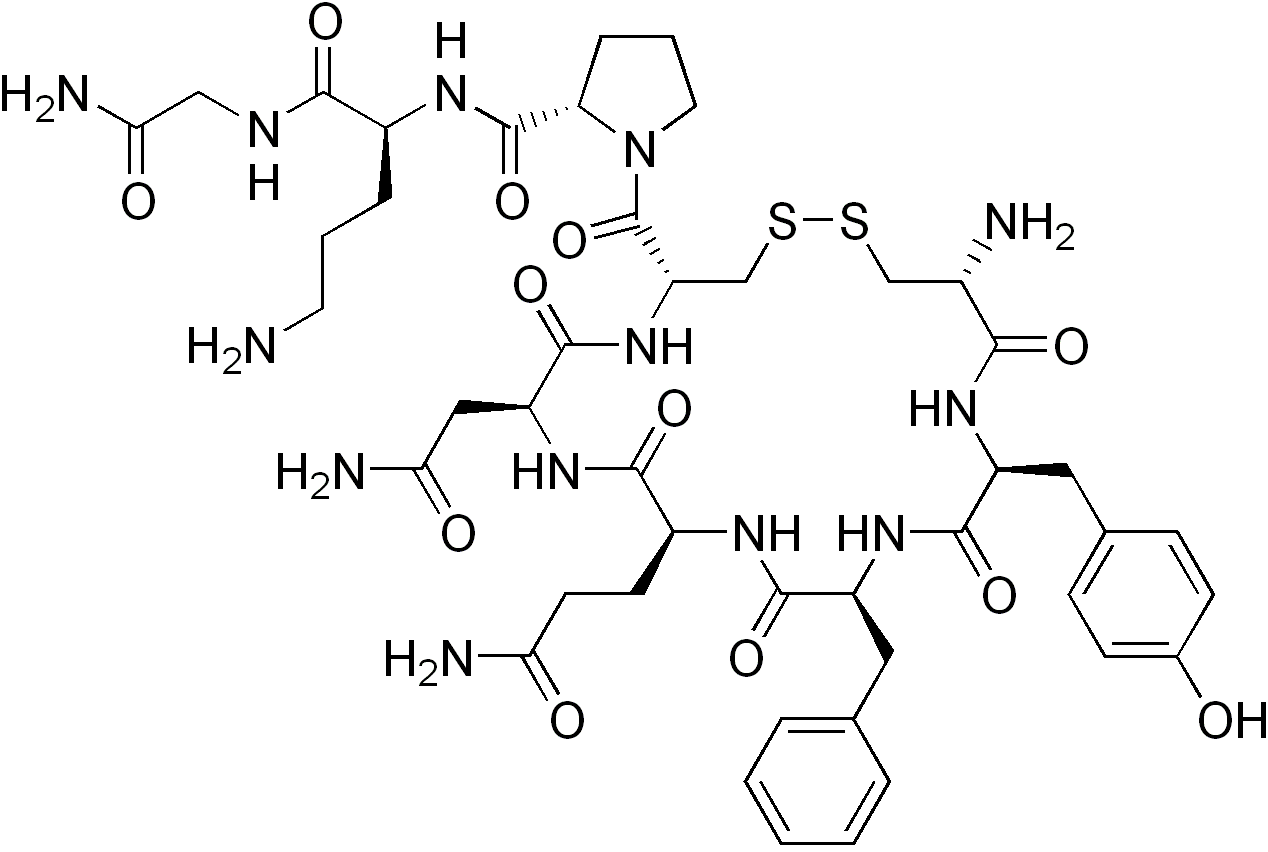 chemical structure of ornipressin